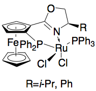 Uemura and Hidai cat for transfer hydrogenation/kinetic resolution of seconday alcohols